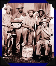 Jug Band with Washtub Bass and Washboard.